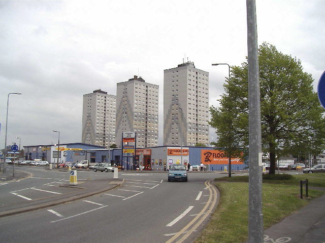 View southeast from the Crosby Hotel, Normanby, Scunthorpe, to the junction with Glebe Road (left) and Crosby Road (right). The single-storey buildings with large, coloured signs are the Glebe Road Trade centre. The three towe5rs beyond them are (from right to left) Crosby House, Princess House and Sutton House.